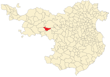 Riadaura